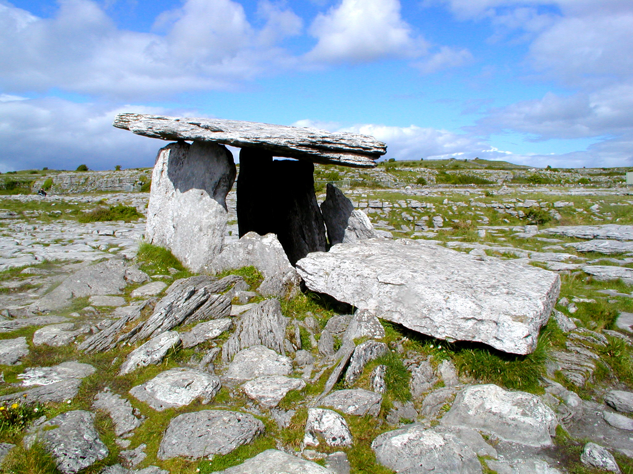 Stone age monument in the Burren